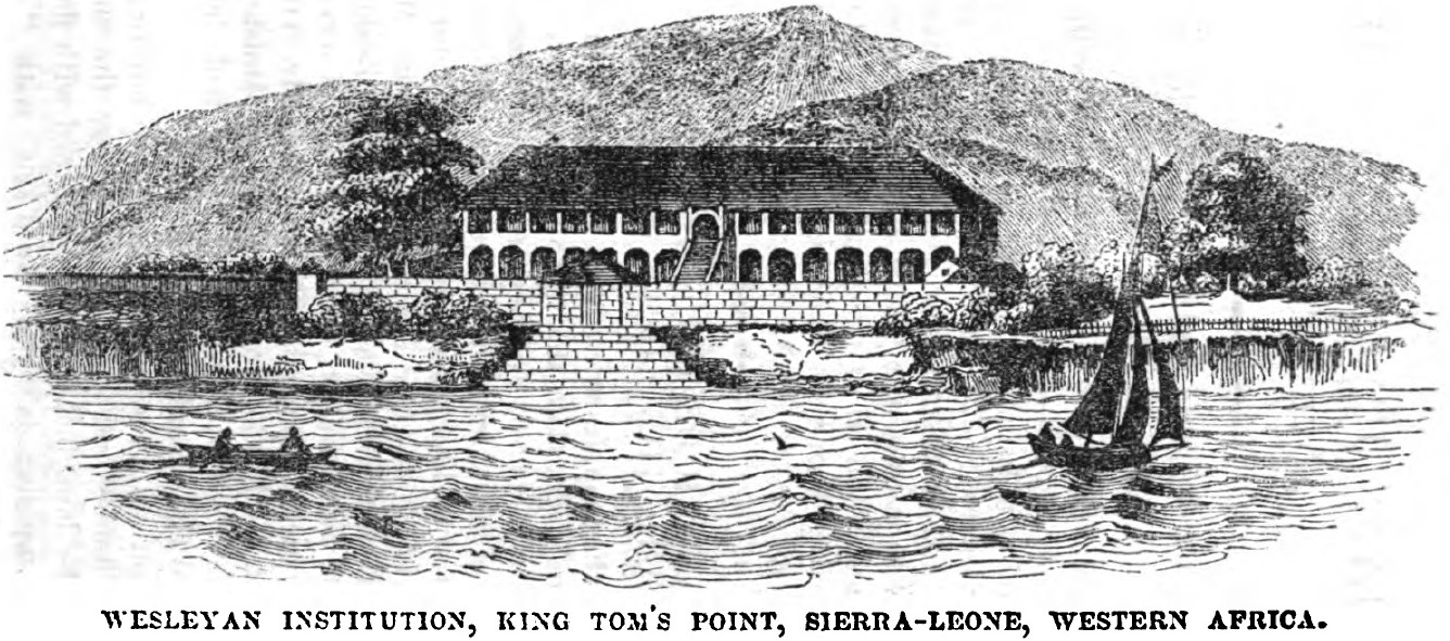 Wesleyan Institution, King Tom's Point, Sierra-Leone, Western Africa (November 1846, p.122, III)